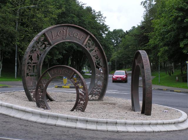 Three Coins sculpture, Lifford Looking north-west